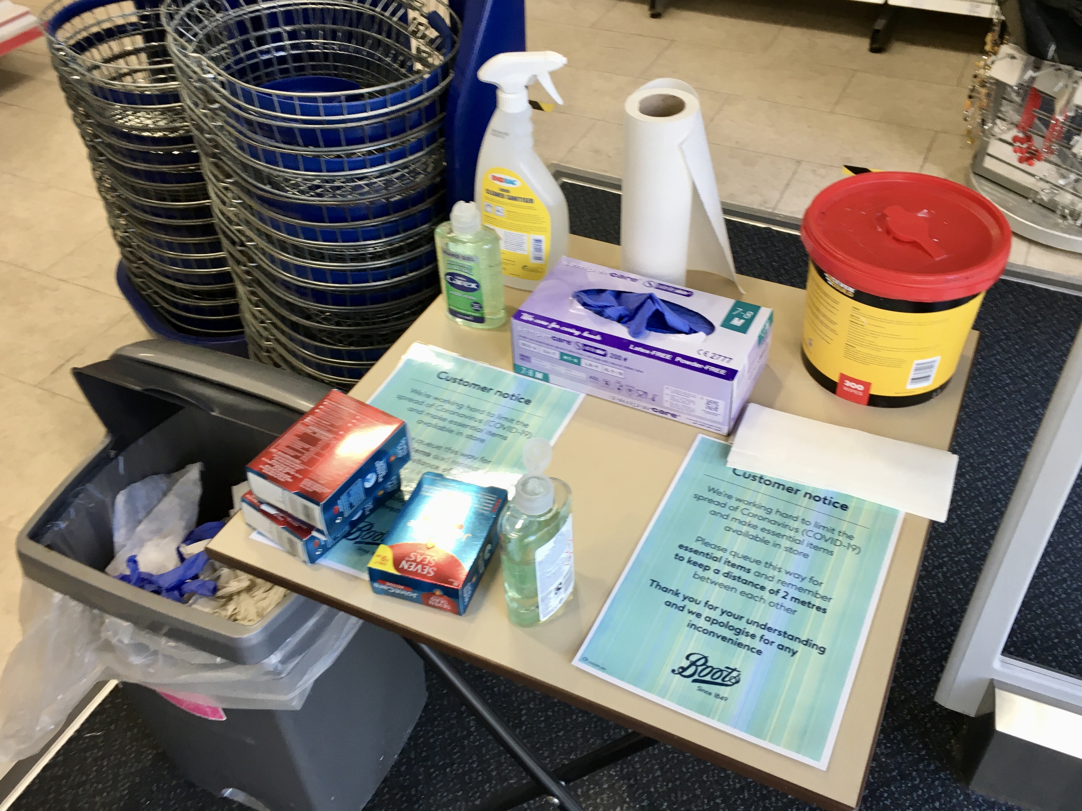 A photo of the hand sanitizing station in Boots, in the high street in Guernsey